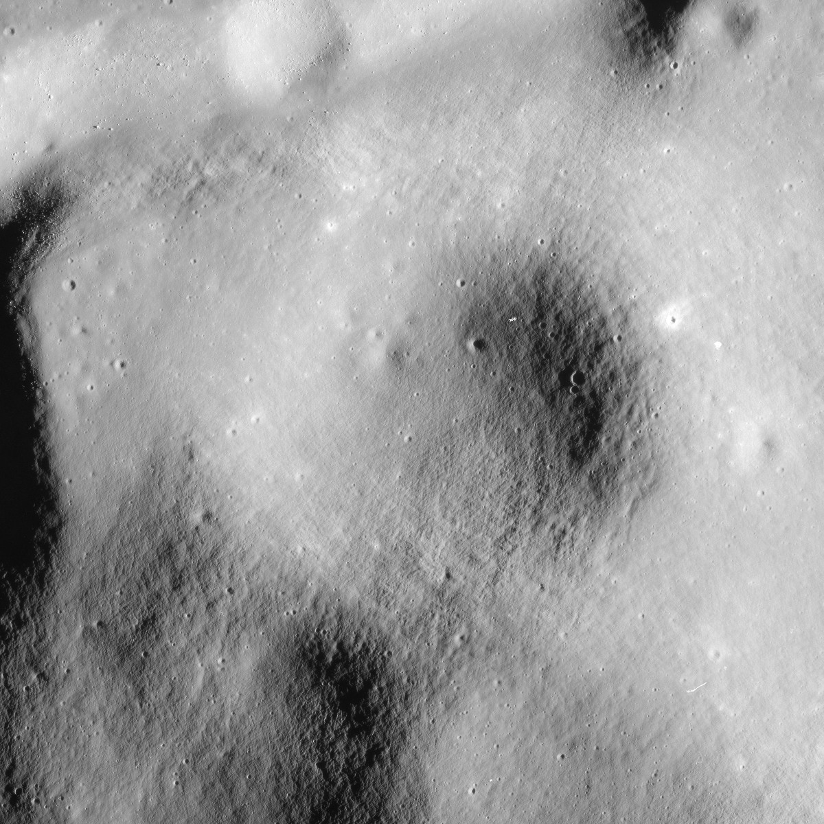 St. George crater, Hadley–Apennine region, on the moon. Sun elevation 23 deg., spacecraft altitude 103 km.